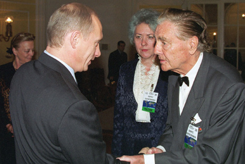 MOSCOW. The opening of the first Congress of Russian Compatriots Living Abroad. President Putin with Baron Eduard von Falz-Fein, heir of the Yepanchin family and a legendary patron on the Russian art.